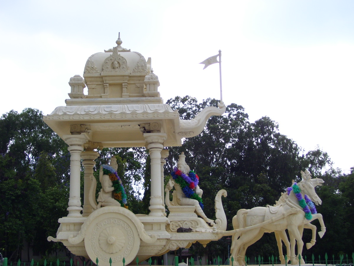 Depiction of Bhagavad Gita - philosophical discource by Krishna to Arjuna at the entrance to Tirumala